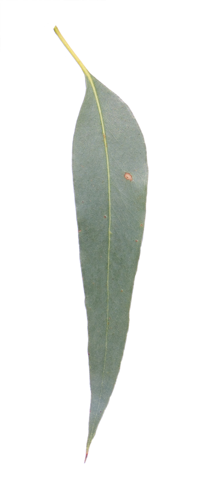 leaves of the immature Candlebark Gum (Eucalyptus rubida)